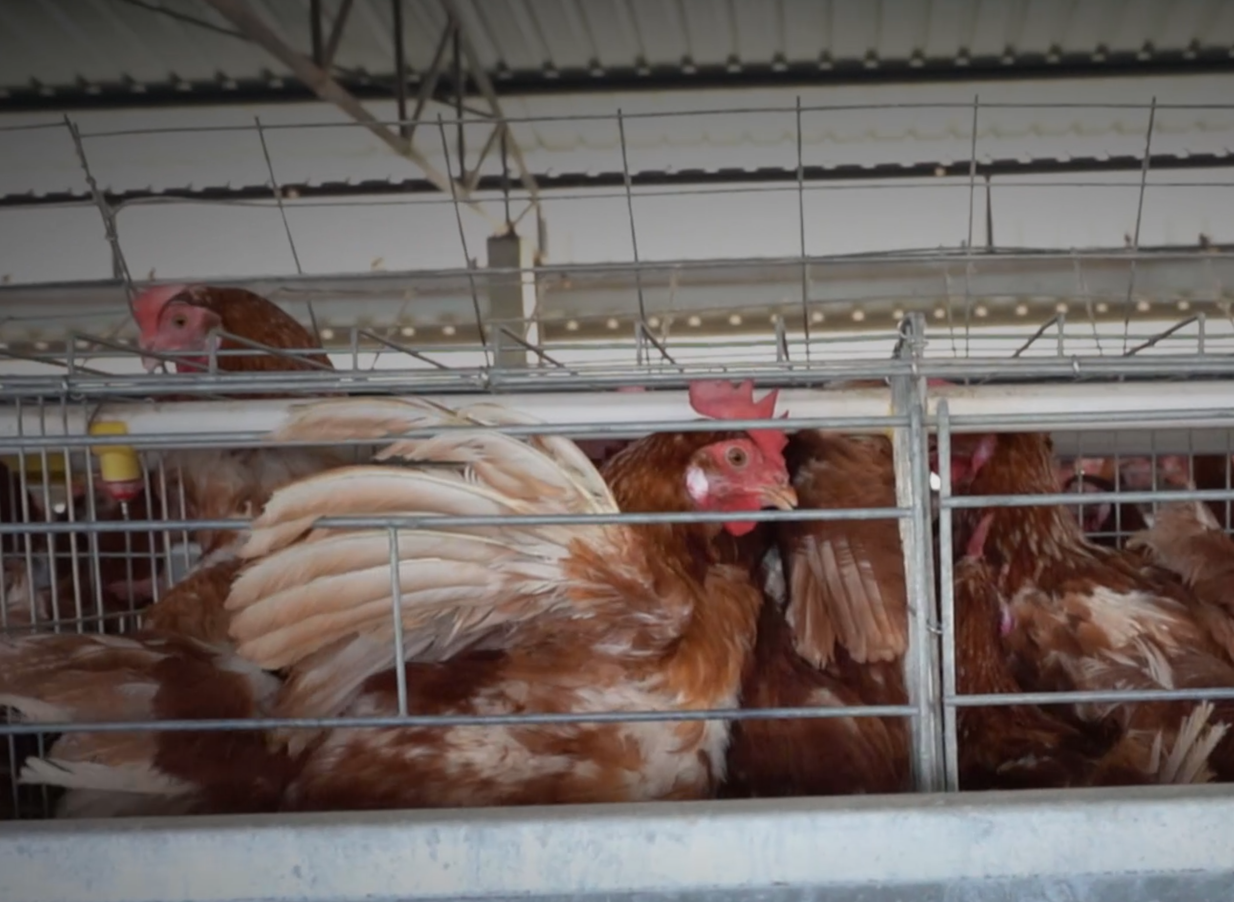 Tesco egg supplier in Thailand - investigation shows hens in battery cages, unable to spread their wings ; more details are at